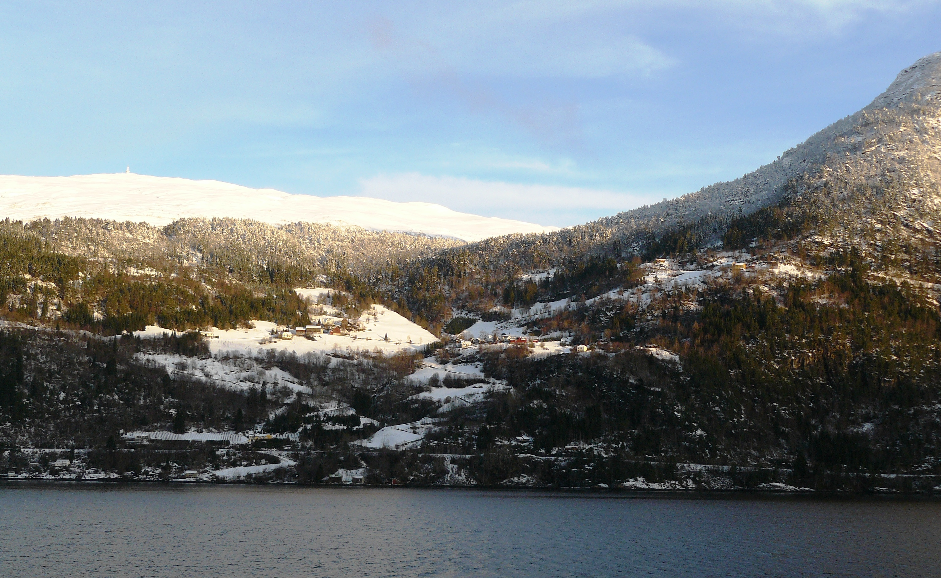 Lote seen from the ferry crossing Nordfjord